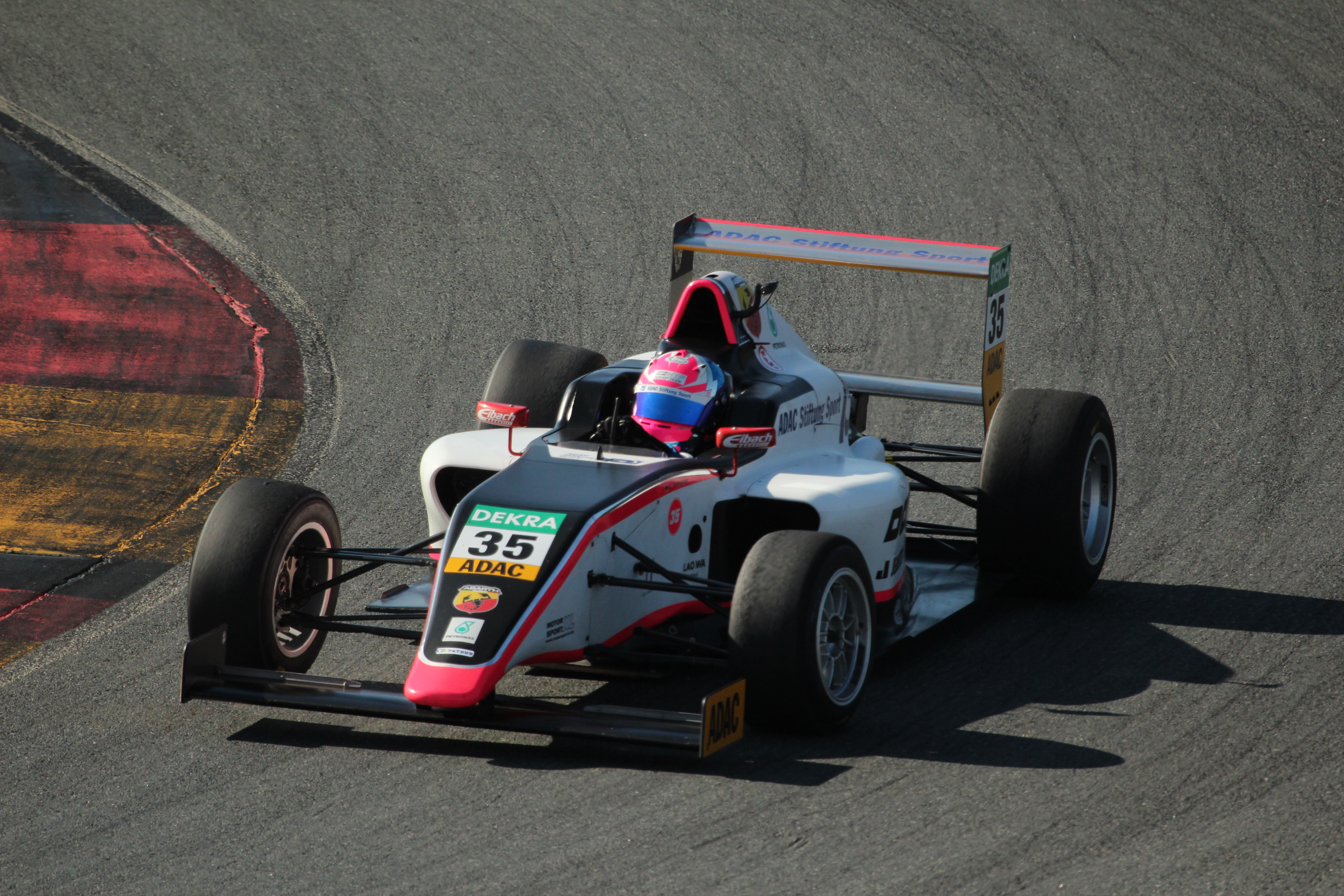 Carrie Schreiner at the Sachsenring in 2015, German Formula 4 Championship